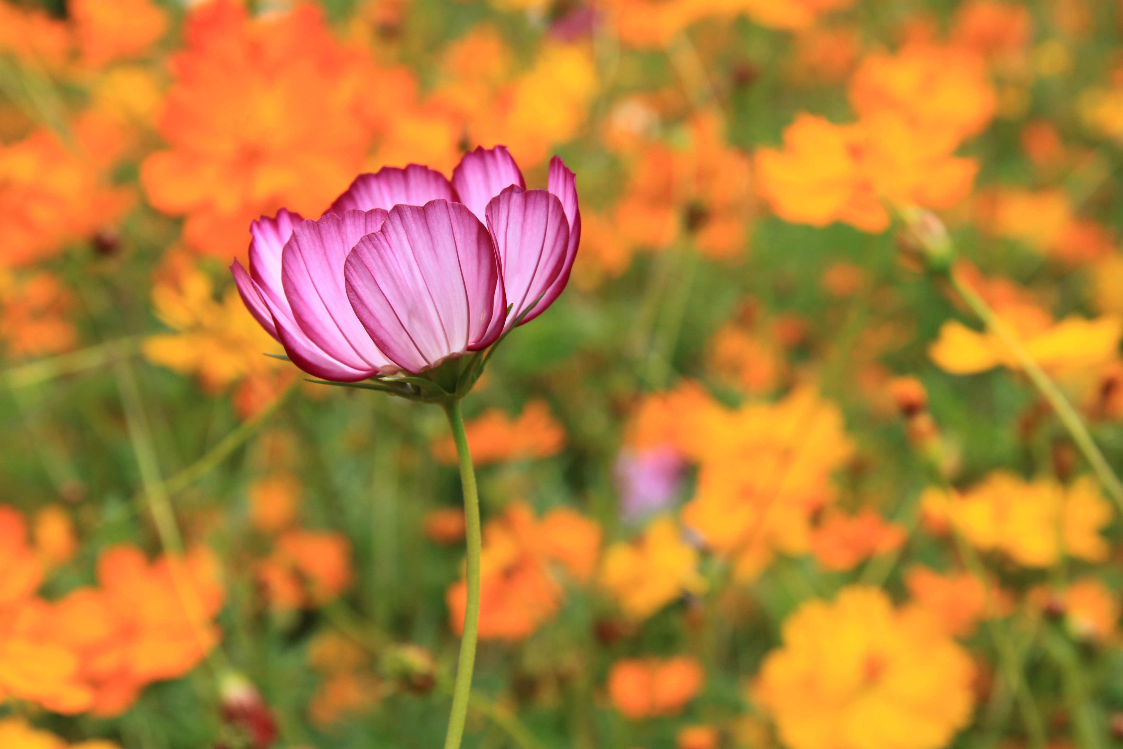 Cosmos bipinnatus on a field of Cosmos sulphureus, Compans Caffarelli garden, Toulouse